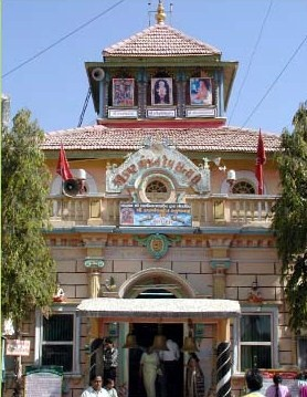 Hanumanji Mandir in Sarangpur (Part of the Swaminarayan Sampraday, under Vadtal Gadi)